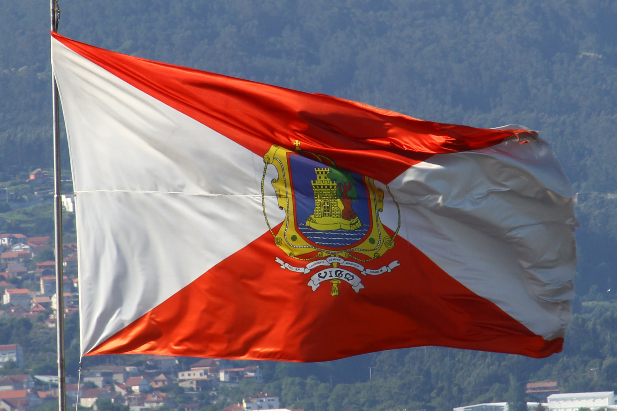 Ondeando sobre la terminal de la Estación Marítima de Vigo. Flag of the city of Vigo Waving over the terminal of the Maritime Station of Vigo.